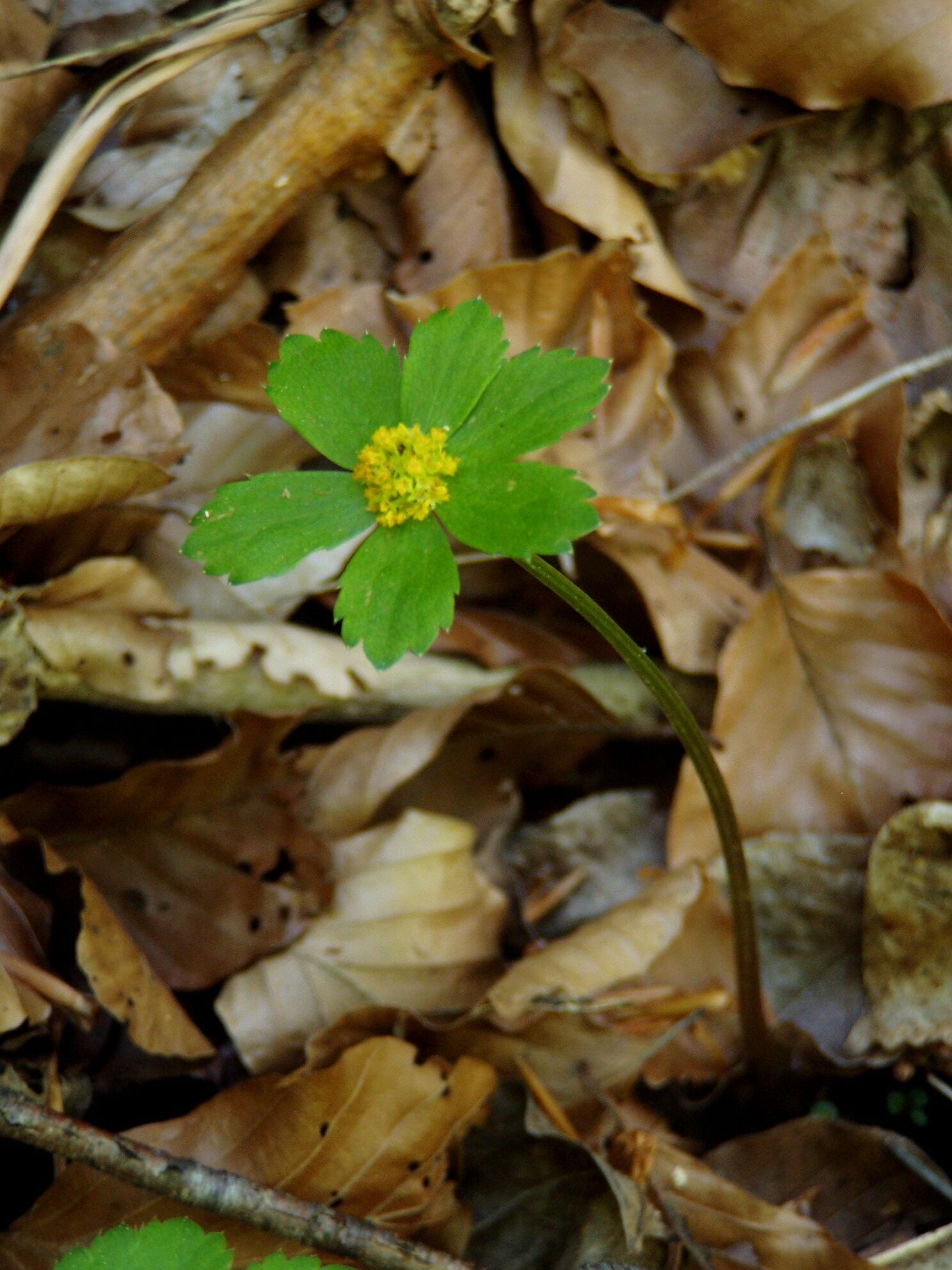 Hacquetia epipactis, Tscheppaschlucht, Karawanken, Carinthia.